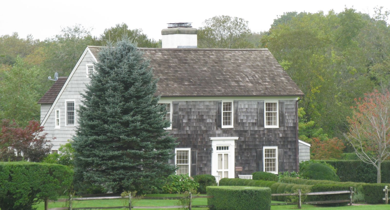 Egypt Lane Rowdy Hall at Long Island, New York